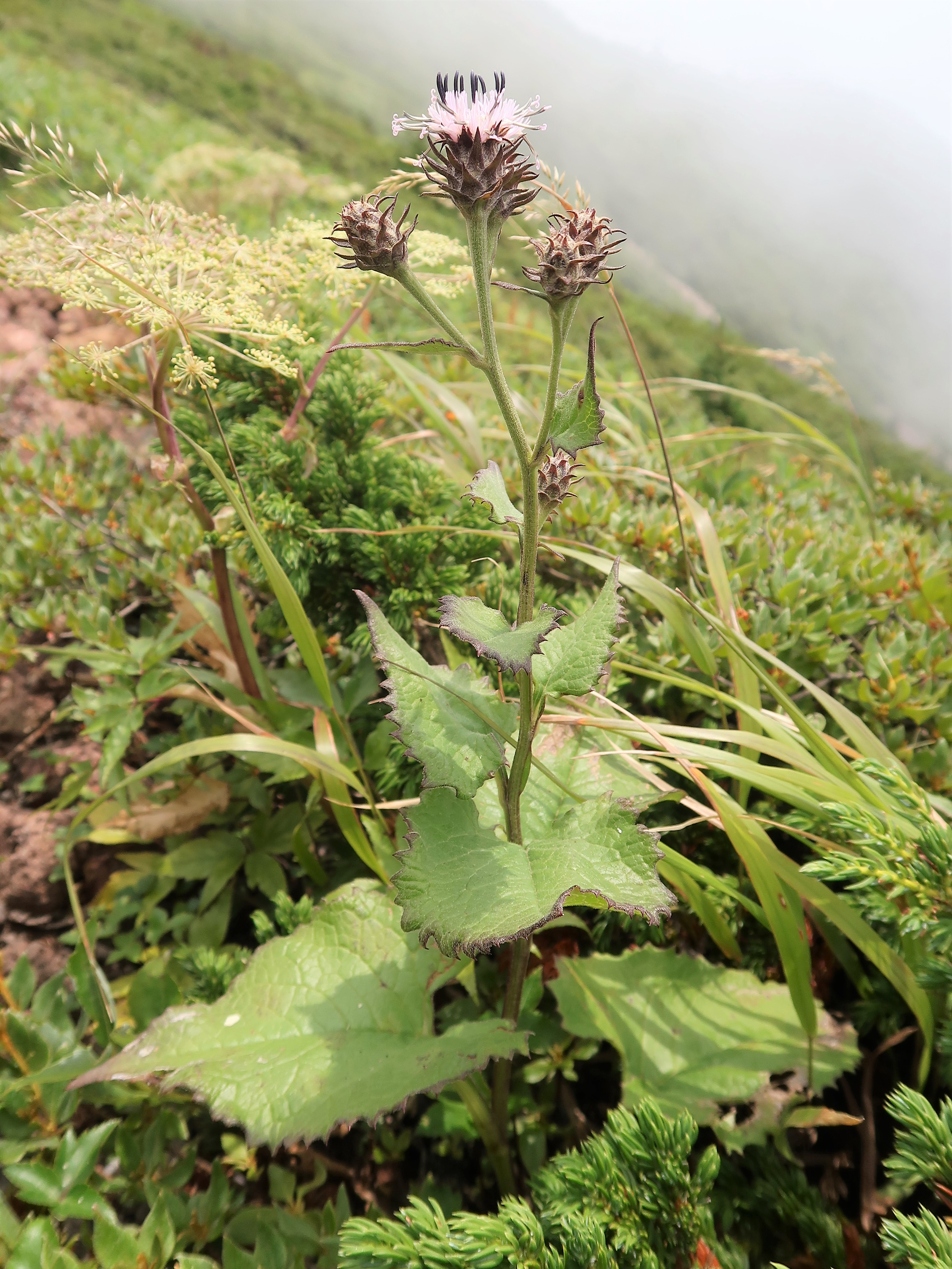 Saussurea fuboensis, Mount Fubo-san, Miyagi pref., Japan